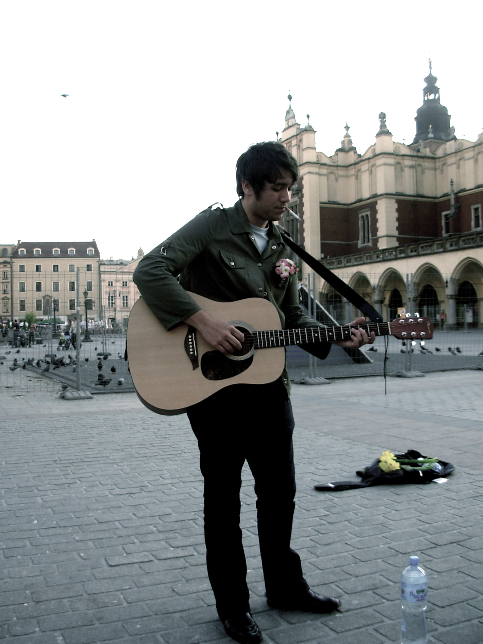 Bruce Driscoll plays in Krakow.